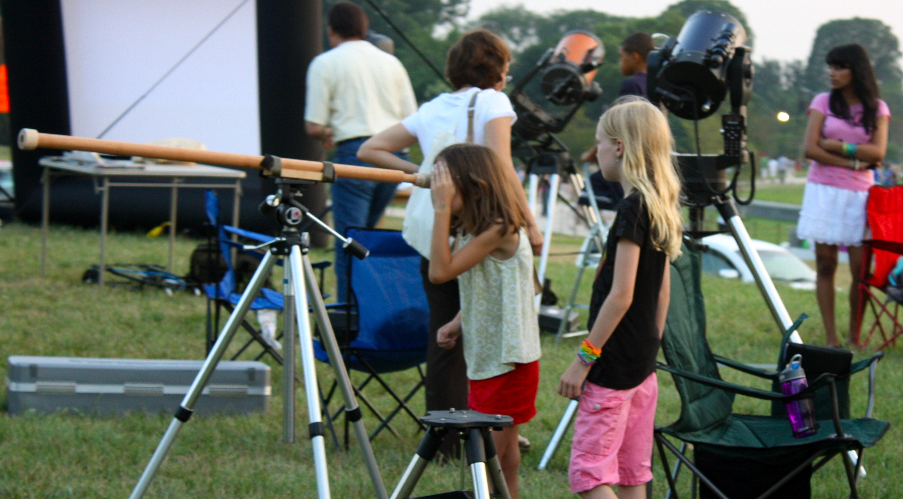 Kids using the Galileo replica